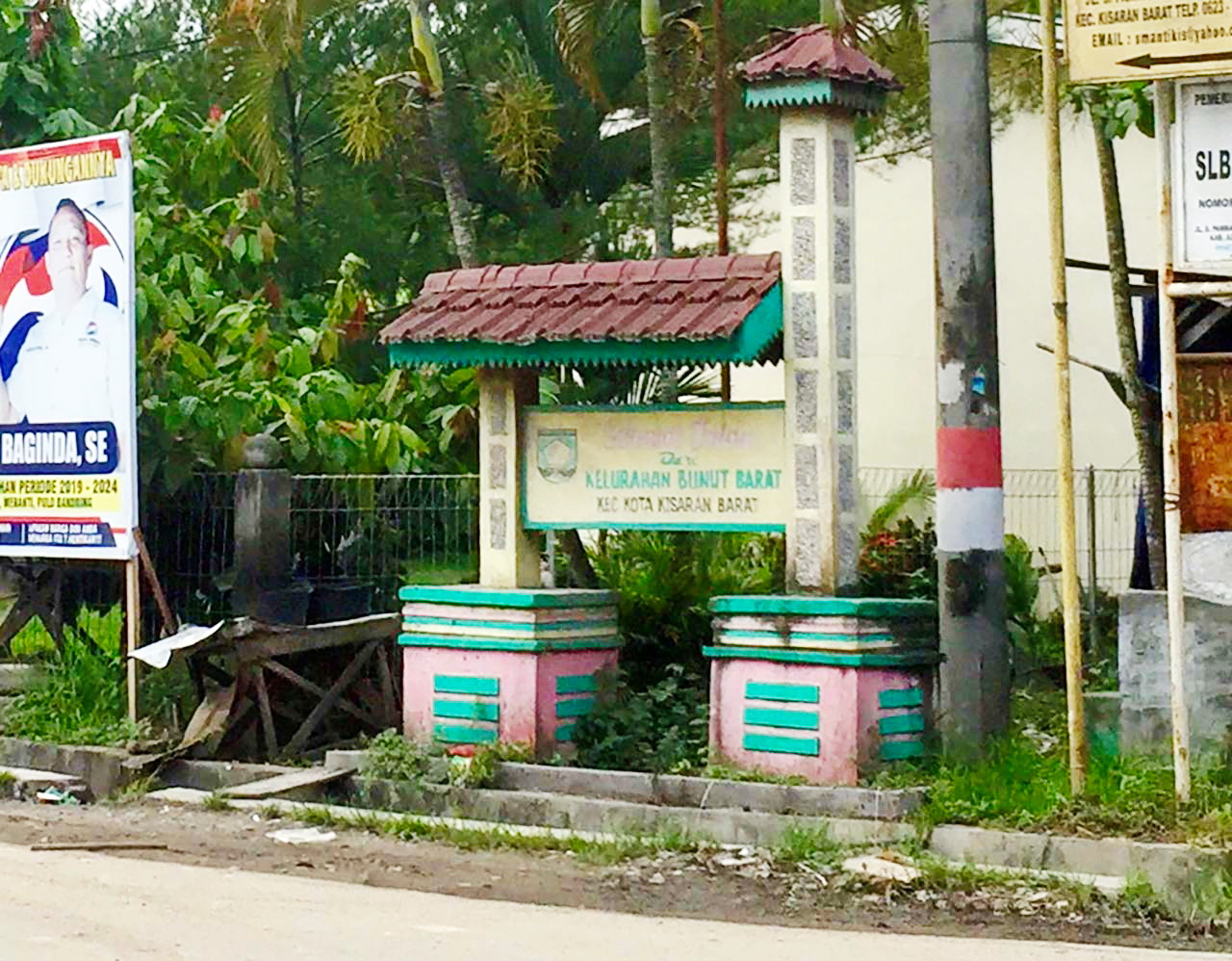 welcome sign to Bunut Barat, Kisaran Barat, Asahan